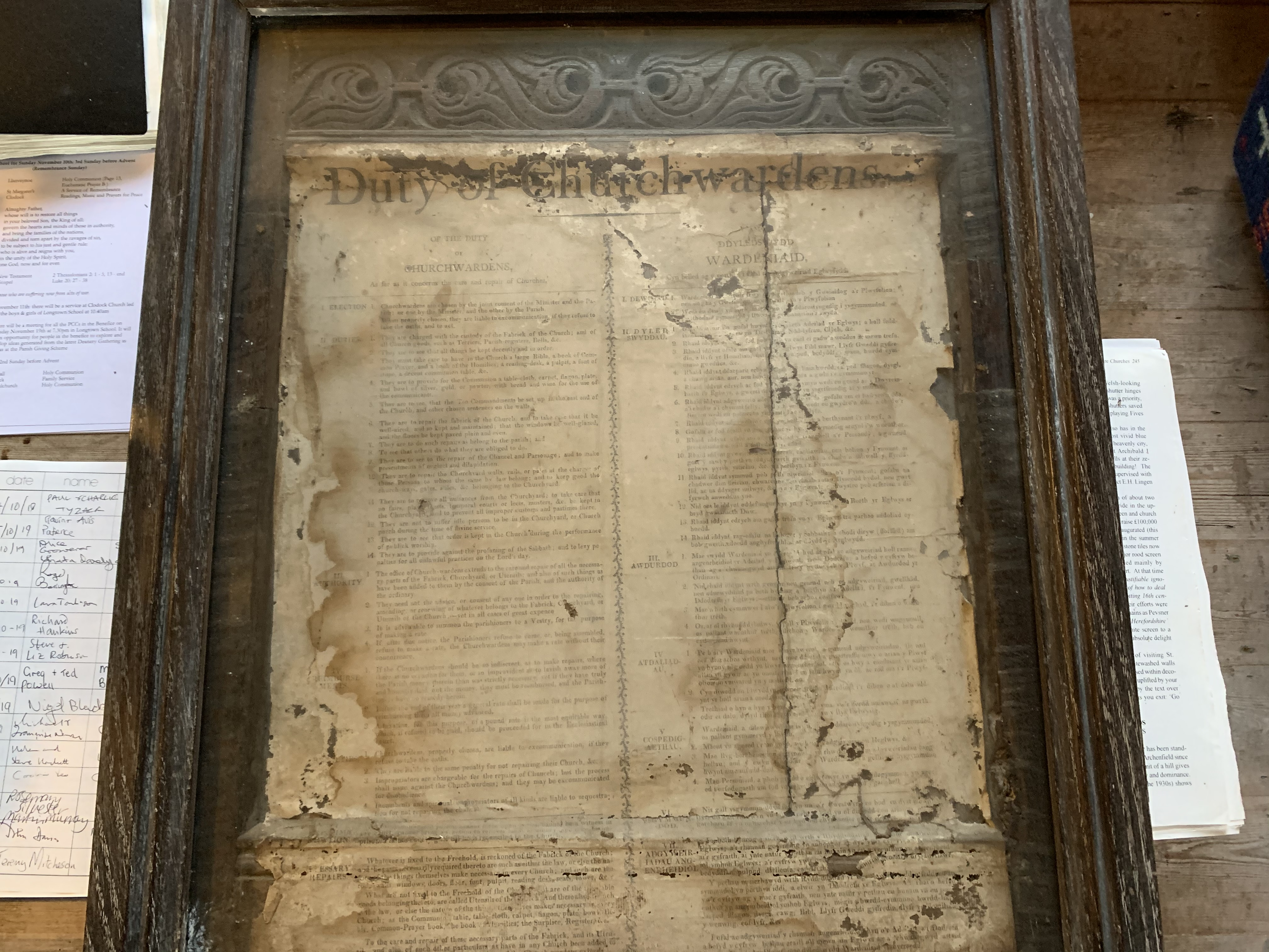 Photograph by courtesy of Dr Rhobert Lewis (Brecon).